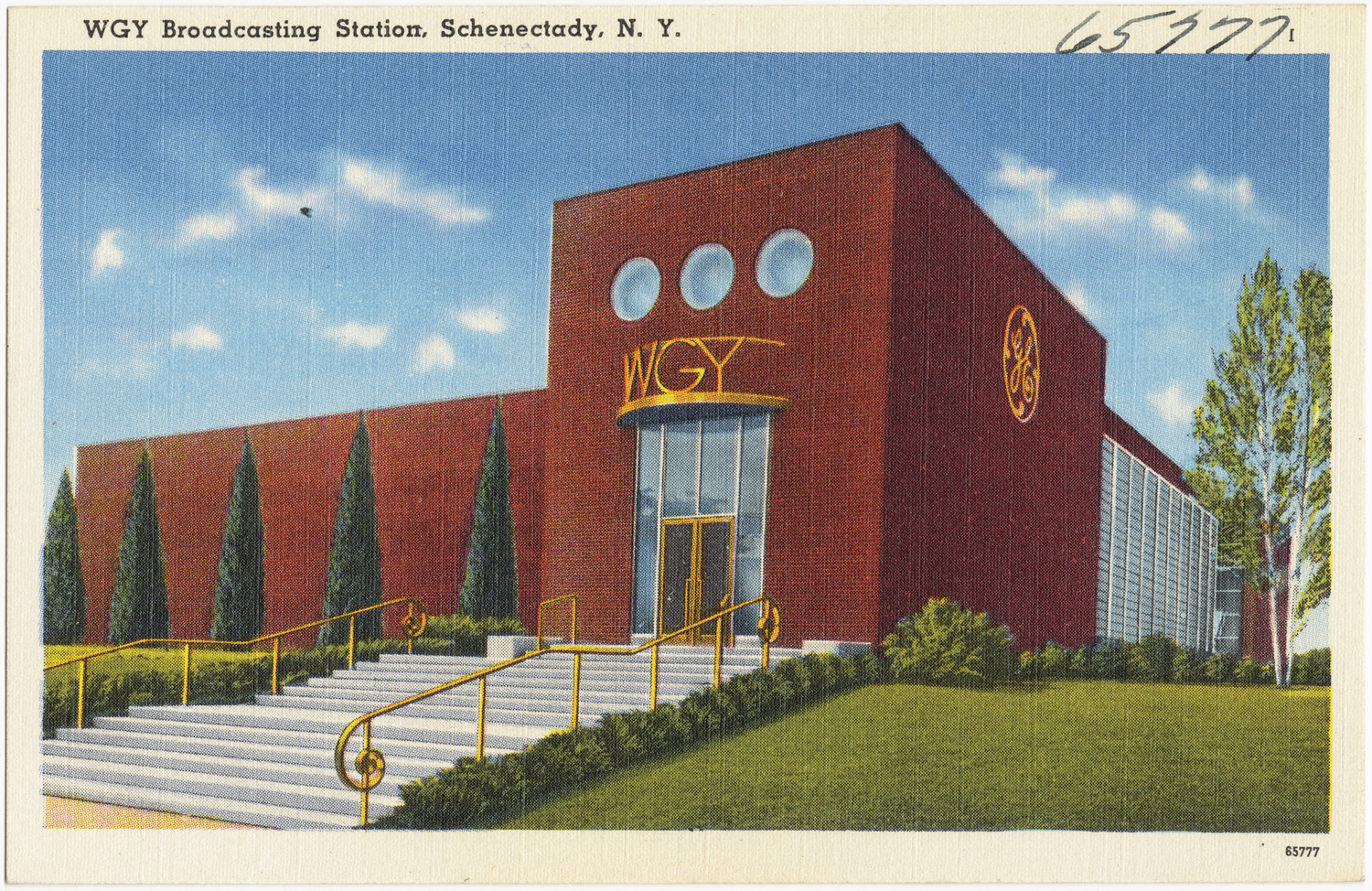 File name: 06_10_006010 Title: WGY broadcasting station, Schenectady, N. Y. Created/Published: Date issued: 1938 - 1945 (approximate) Physical description: 1 print (postcard) : linen texture, color ; 3 1/2 x 5 1/2 in. Genre: Postcards Subjects: Notes: Title from item. Collection: The Tichnor Brothers Collection Location: Boston Public Library, Print Department Rights: No known restrictions